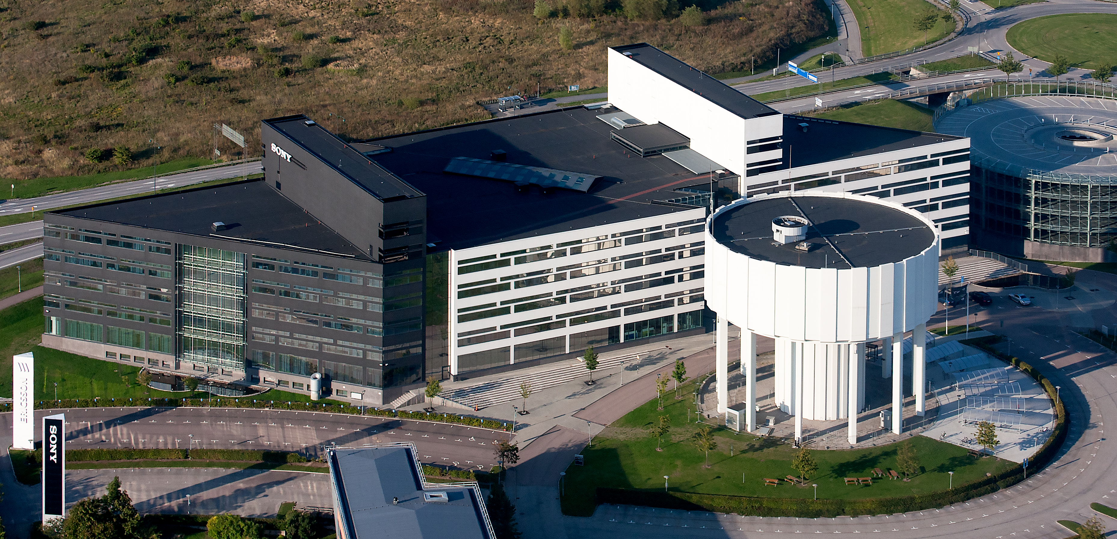 Sony Mobile offices in Lund, Sweden.